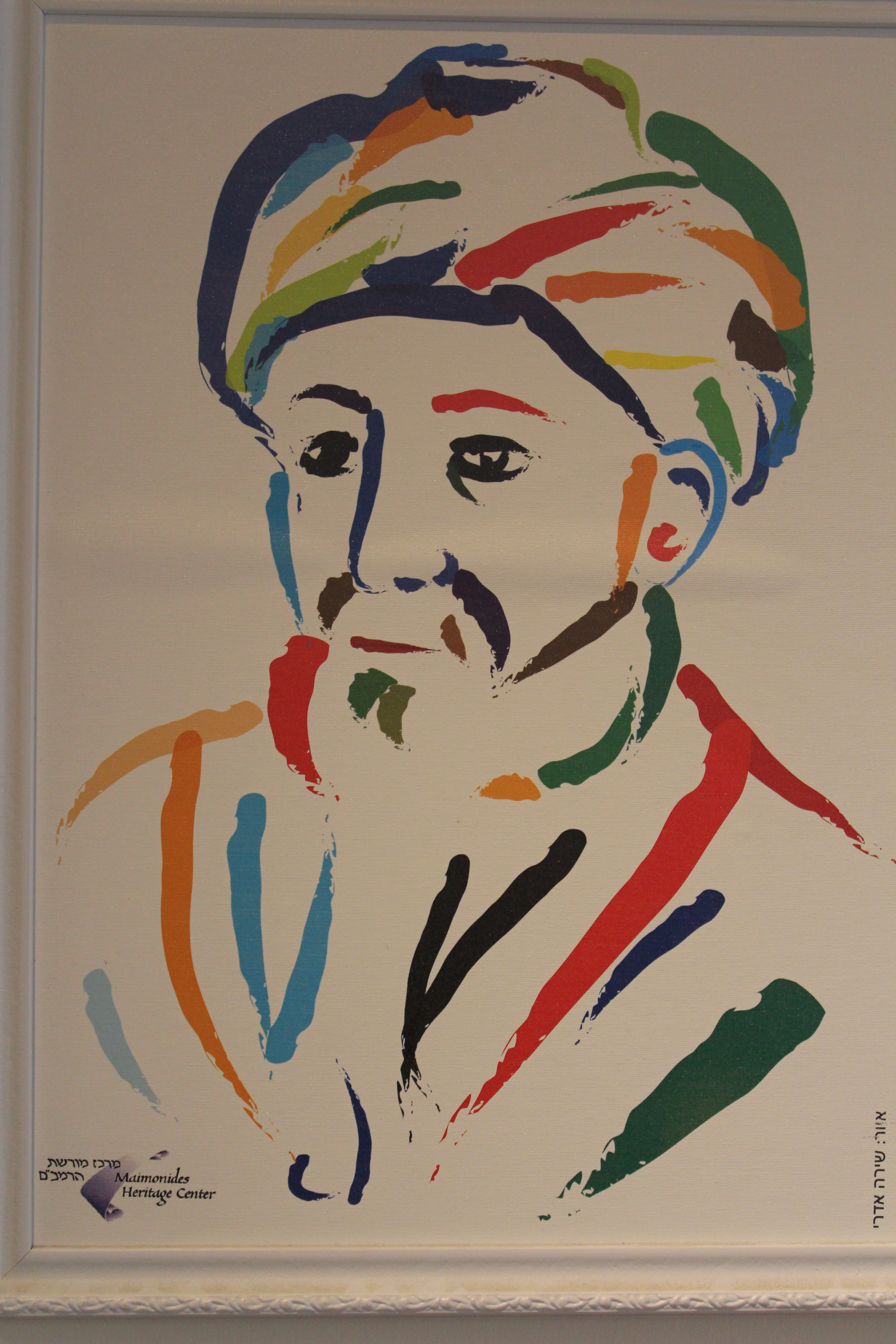 Maimonides Heritage Center Logo, Maimonides Heritage Center is located near the Tomb of Maimonides in central Tiberias, on the western shore of the Sea of Galilee, Israel. This image was taken as part of the Elef Millim project trip to the Maimonides Heritage Center, in the Tiberias, in Israel which was held on Friday, 8th September 2017. To view all images uploaded as part of the Elef Millim Project